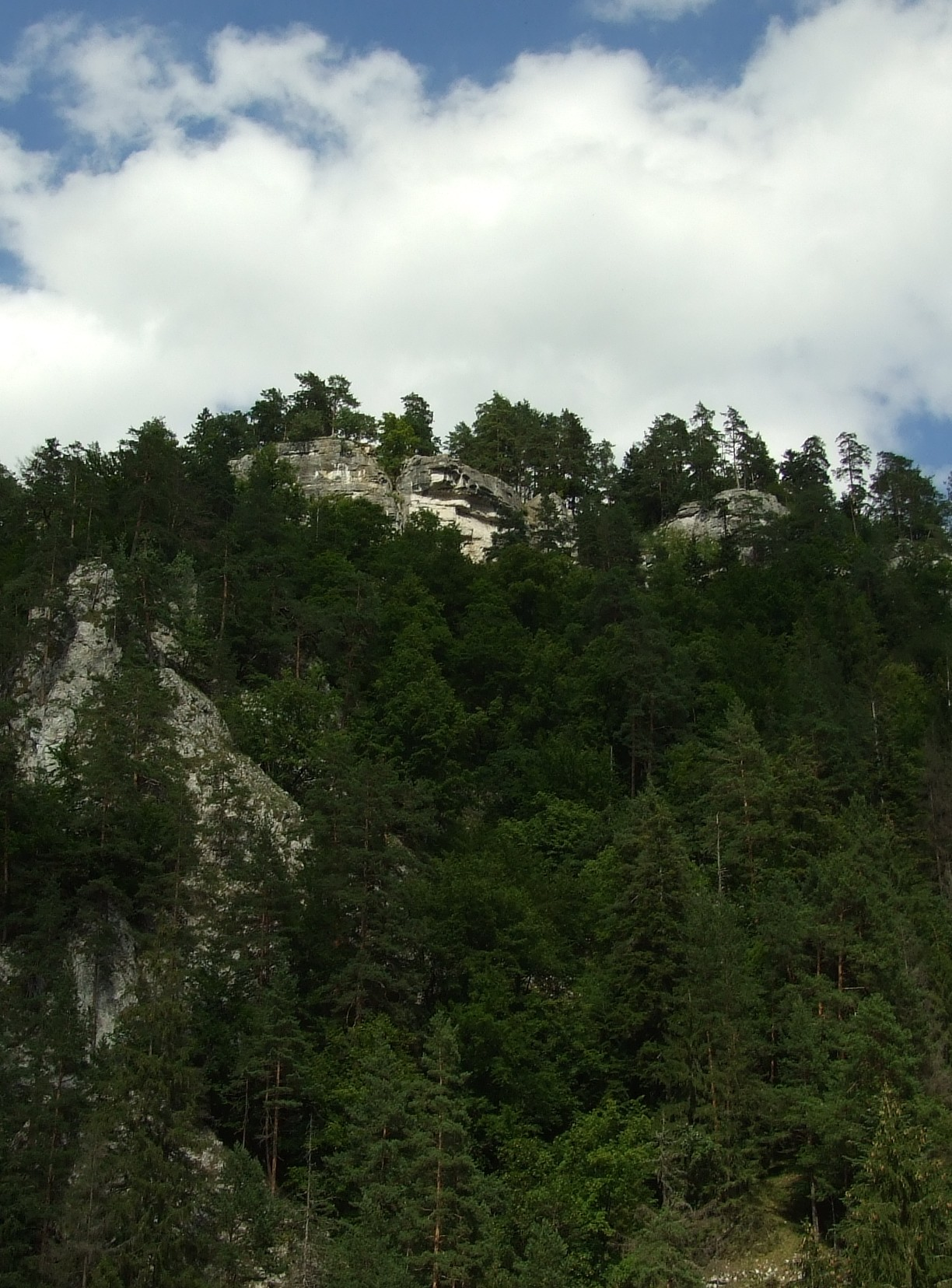 Tomašovský výhľad overlook place in Slovenský raj national park, Košice Region, SKhelp